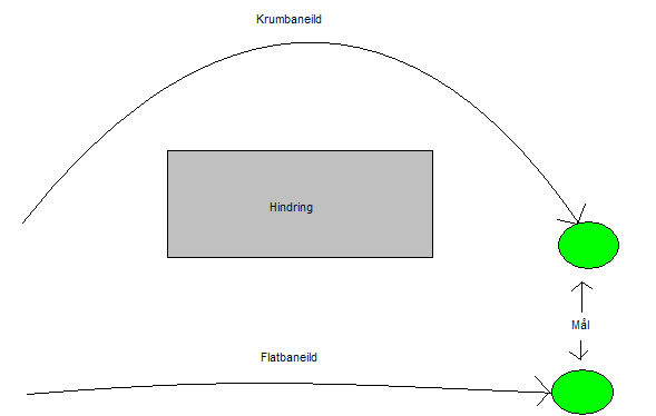 Direct and indirect fire trajectory